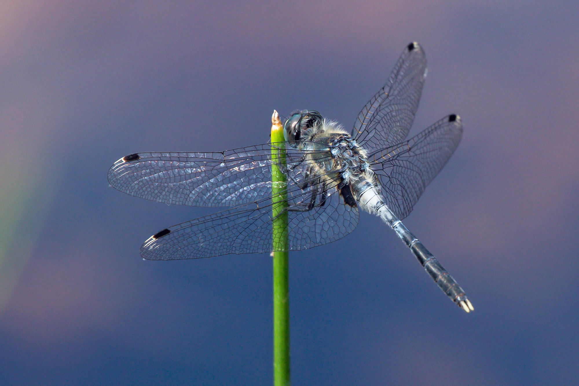 Male specimen of the dragonfly Eastern White-faced Darter, Leucorrhinia albifrons.